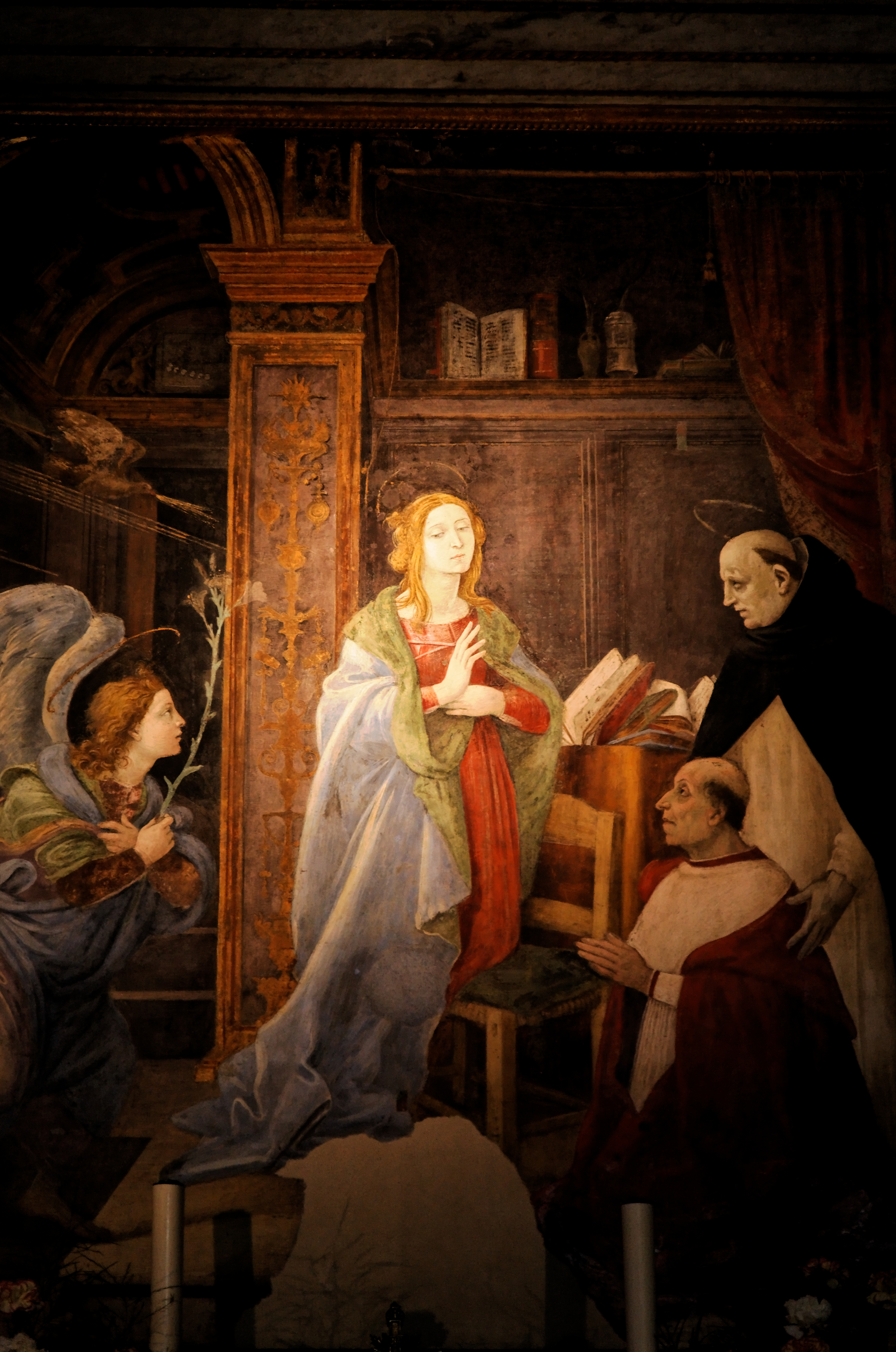 Fresco in the Carafa Chapel inside Basilica of Santa Maria sopra Minerva, Rome